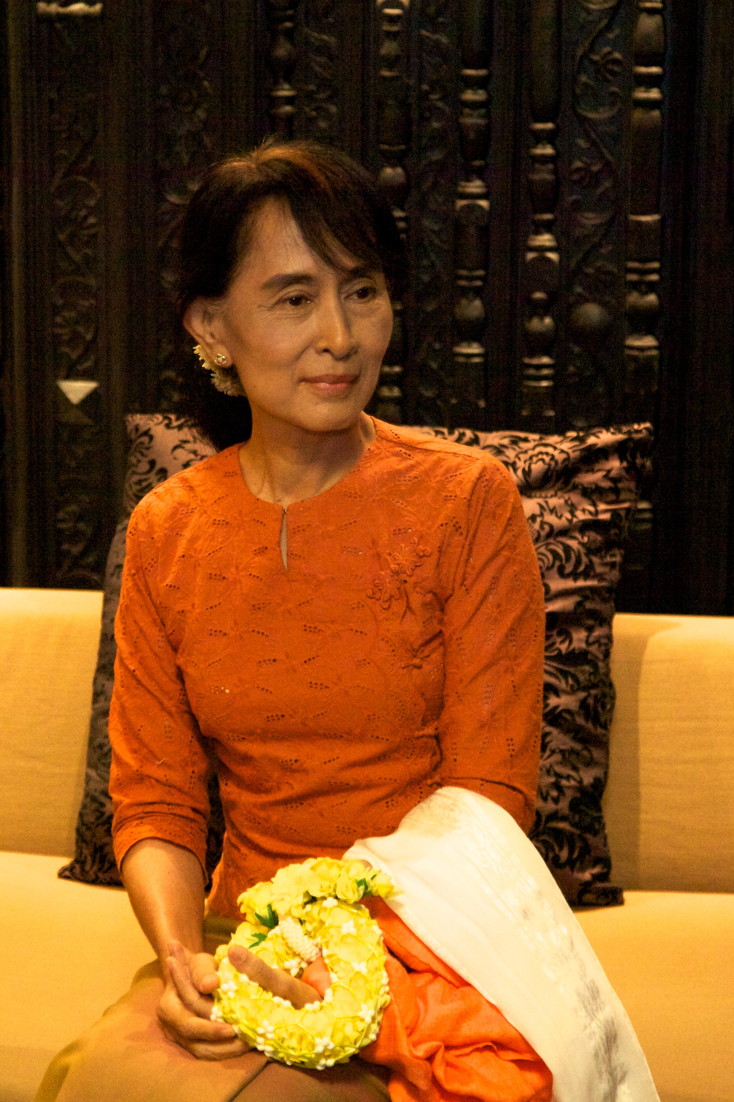 BANGKOK/THAILAND, 29MAY12 - Aung San Suu Kyi, Chairman of the National League for Democracy (NLD), Myanmar, captured during the World Economic Forum on East Asia in Bangkok, Thailand, May 29, 2012. Copyright